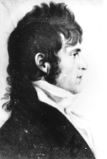 Portrait of Senator Waller Taylor of Indiana